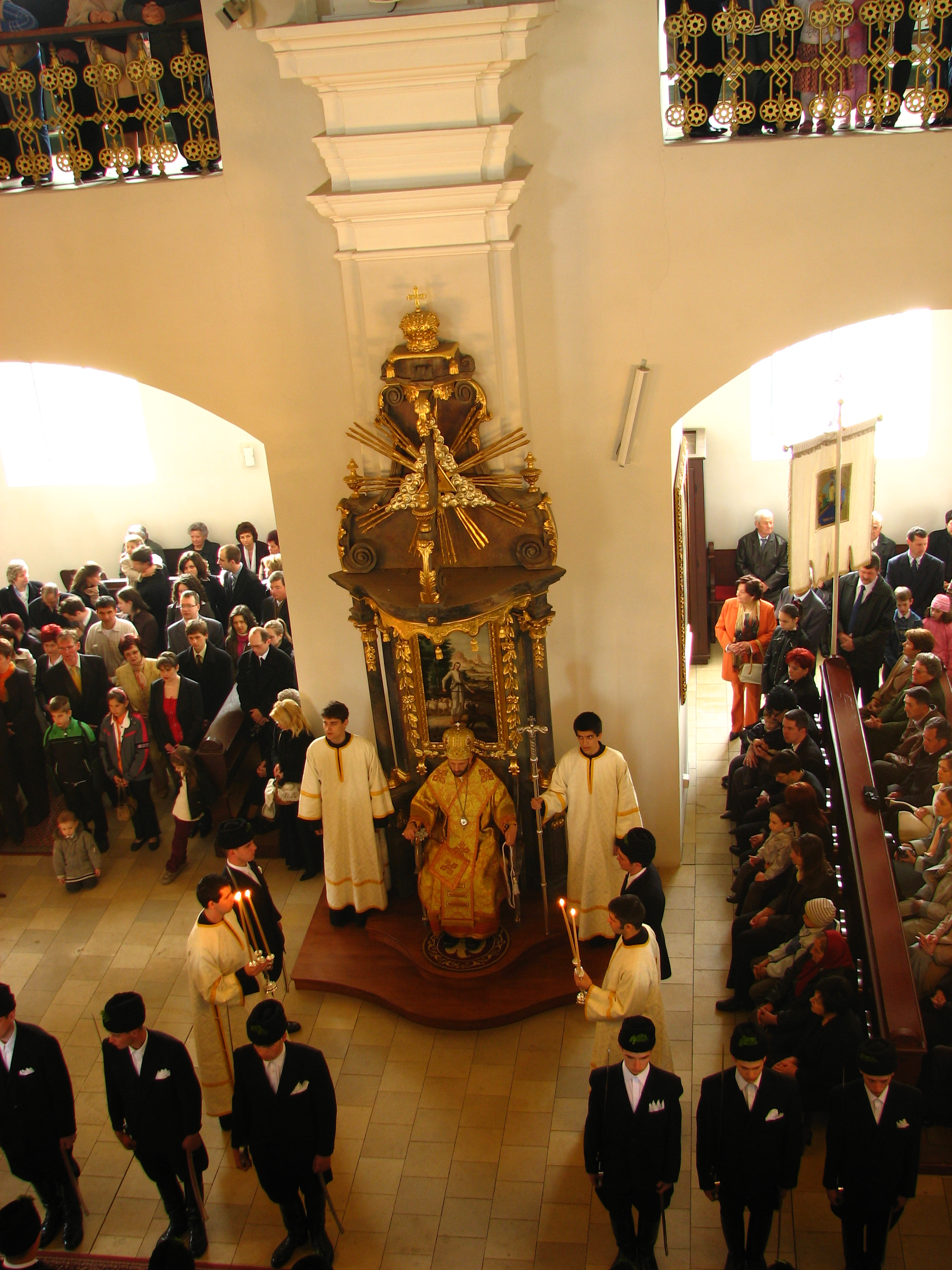 The picture depicts a scene at Easter time from the Greek Catholic Cathedral of Hajdúdorog, Hungary. The bishop of the Byzantine Catholic Diocese of Hajdúdorog, Fülöp Kocsis is sitting on the episcopal throne (in the focus of the photo). There're four subdeacons around the bishop: one cantor (on the right of the bishop), one crosier holder (on the bishop's left) and two candle holders (one of them carrying a candlestick with three candles - that symbolizes the Trinity; and the other holds a candlestick with two candles - which symbolizes the two natures of Christ: divine and human). On the bottom of the page you can see the so-called Soldiers of Christ who are wearing a traditional black uniform, holding a saber and lining up in the cathedral. The Soldiers play major part in the Easter ceremonies. They start to be on guard at Christ's symbolic tomb from Good Friday till the end of Easter and they help the work of the bishop and the priests. Only unmarried men can apply for being a soldier voluntarily and this is a great honor.